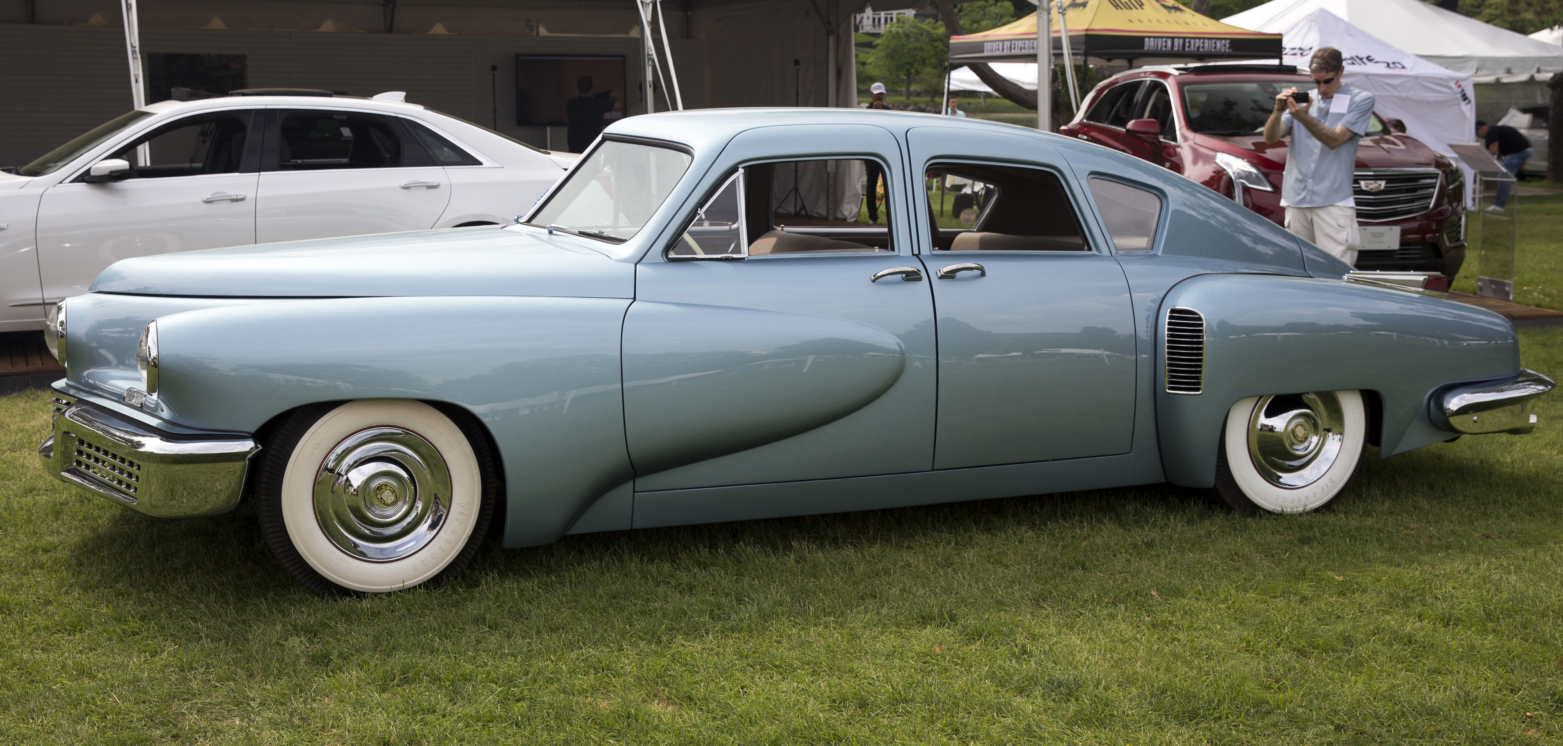 A very intense Tucker Torpedo Replica at the 2018 Greenwich Concours d'Elegance. Handmade from scratch by Rob Ida Concepts (the fourth one they've built), this one carries a twin-turbo 550hp Cadillac Northstar V8. Based on the original drawings and a 3D-scan of a 1947 Tucker, the body is a mix of steel and carbon fiber parts. The original vent/heat sliders now control the air suspension! I believe this one won the spectator's choice award.